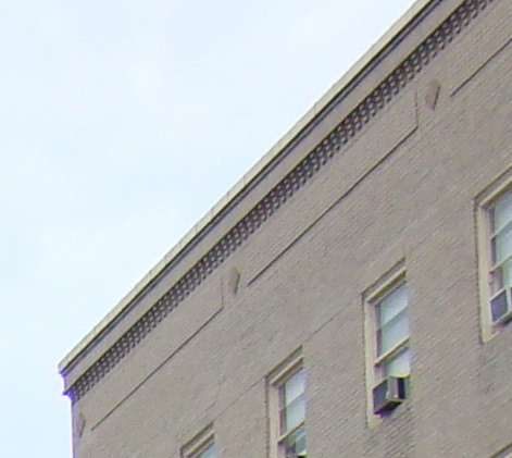 View of roof line on the Mountaineer Hotel. The structure is a historic building located in Williamson, West Virginia. The property was added to the U.S. National Register of Historic Places on March 21, 1997.